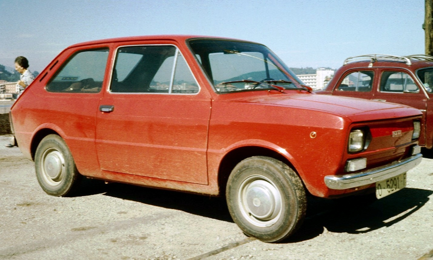 Seat 133 in northern coast of Spain pre facelift